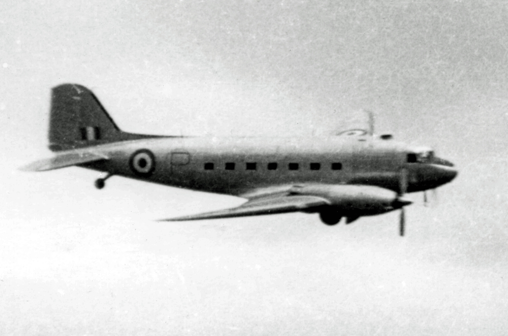 The Armstrong-Siddeley Mamba testbed C-47B Dakota displaying at Coventry Airport